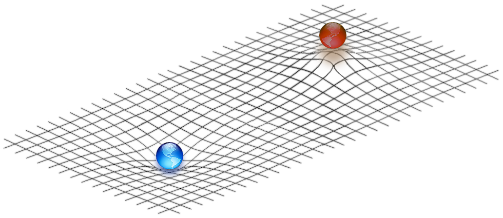 2D rubber-sheet model of a curved spacetime according to the Einstein field equations. Positive mass (blue) and negative mass (red) share the same single "side" of a 4D hypersurface. The positive mass creates a positive curvature with an attractive gravitational potential (gravity well) while a negative mass produces a negative curvature with a repulsive gravitational potential (gravity hill). In this case, positive masses would attract anything, while negative masses would repel anything (including other negative masses).